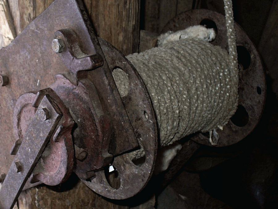 Winch